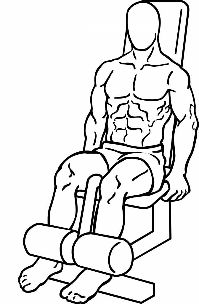 an exercise of thigh